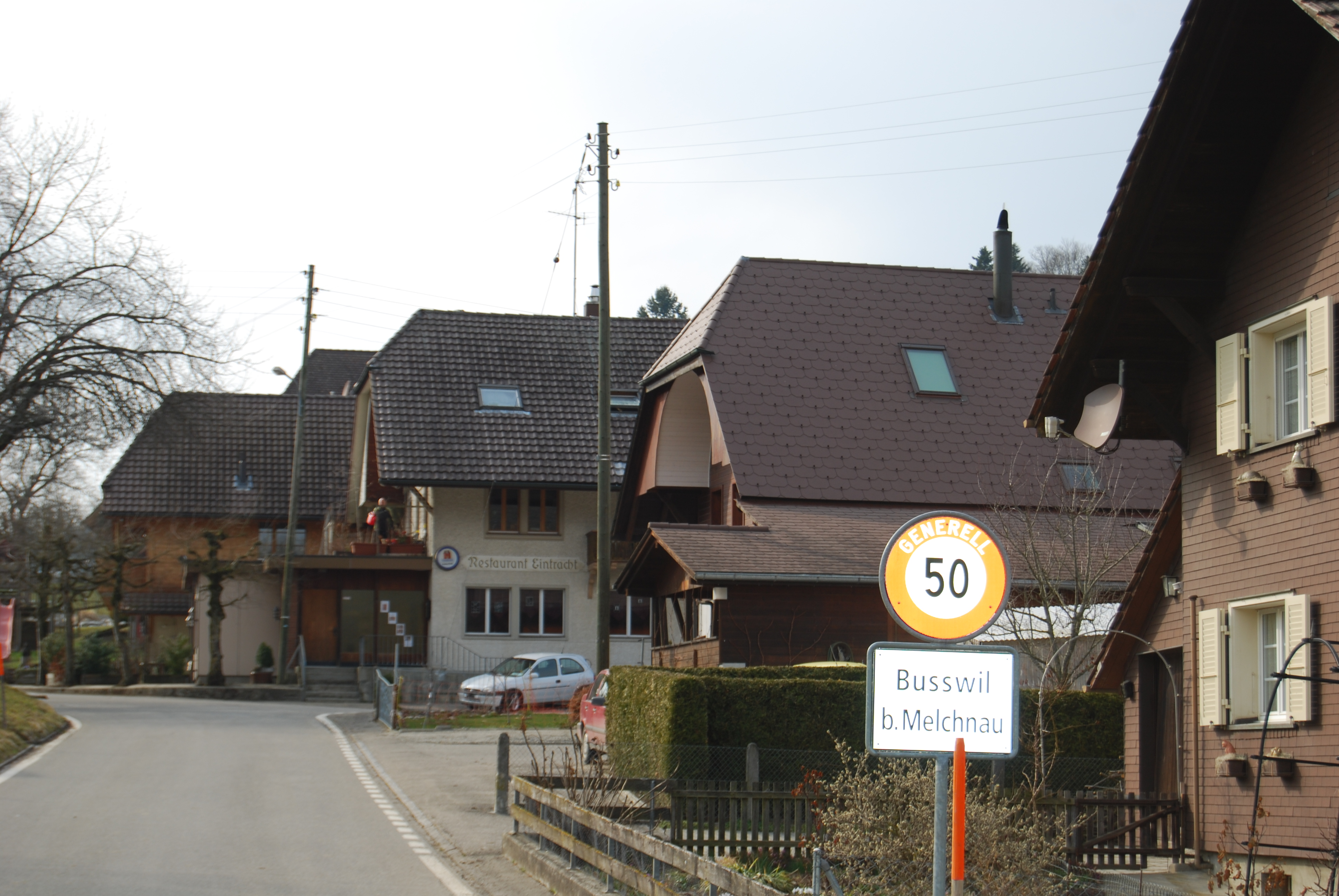 Busswil bei Melchnau, canton of Bern, SwitzerlandEsperanto: Busswil ĉe Melchnau, Kantono Berno, Svislando